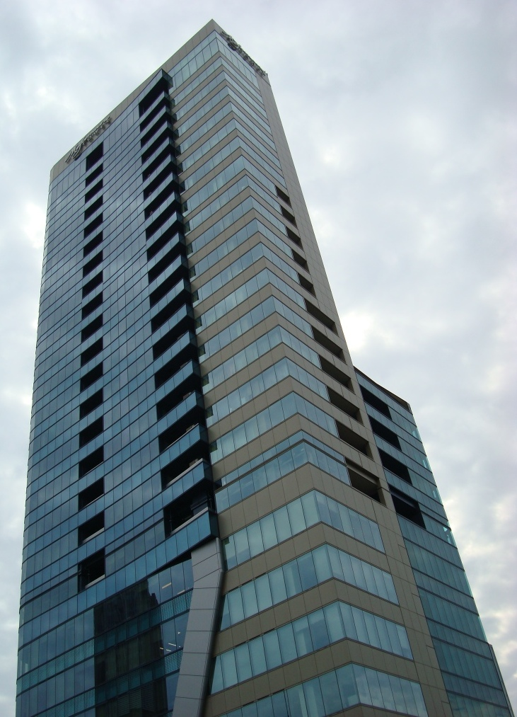 MY Tower (M.Yamano Tower) in Yoyogi district, Tokyo